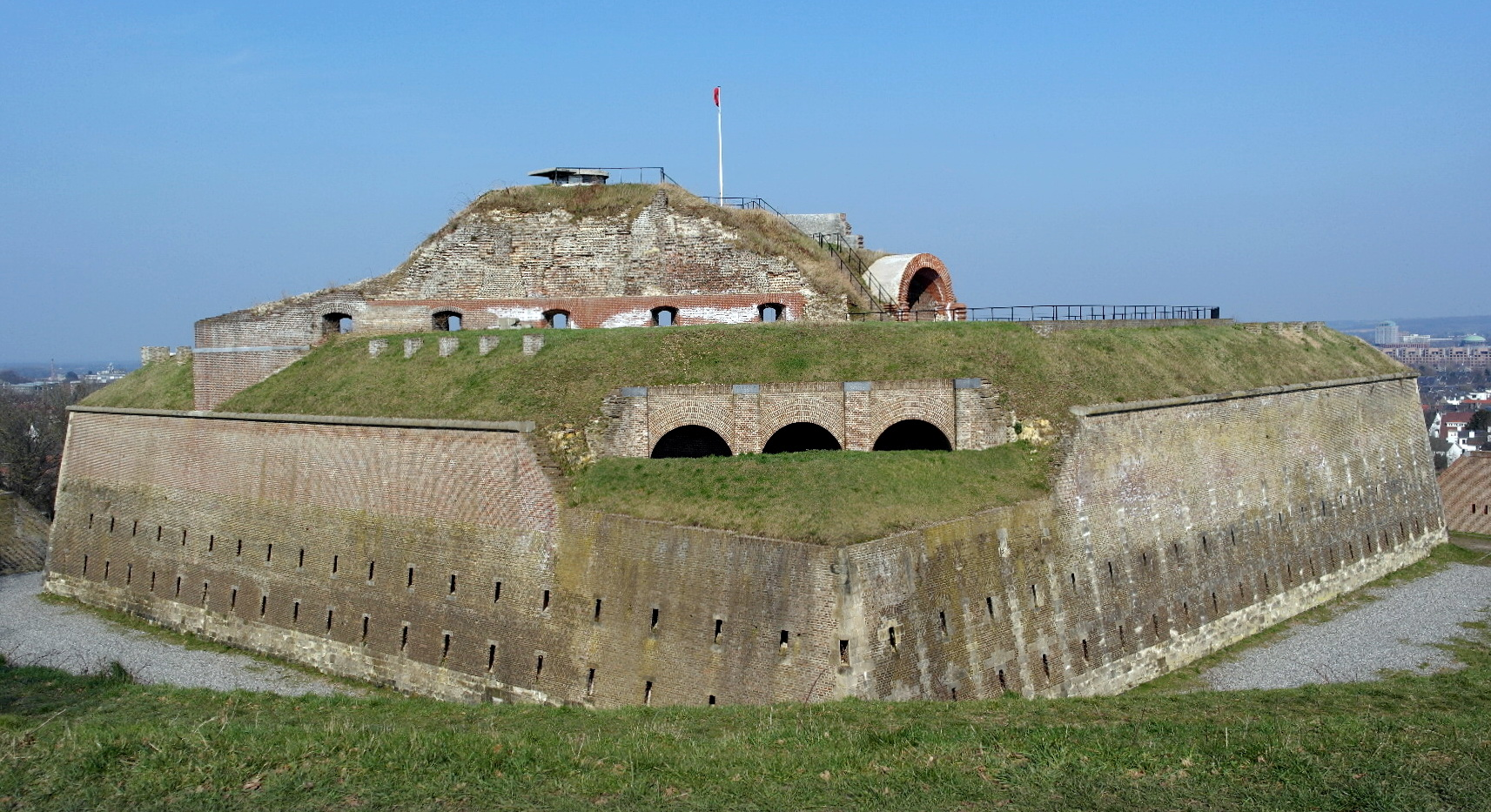 View of the early-18th-century fortress Sint-Pieter in Maastricht, the Netherlands.